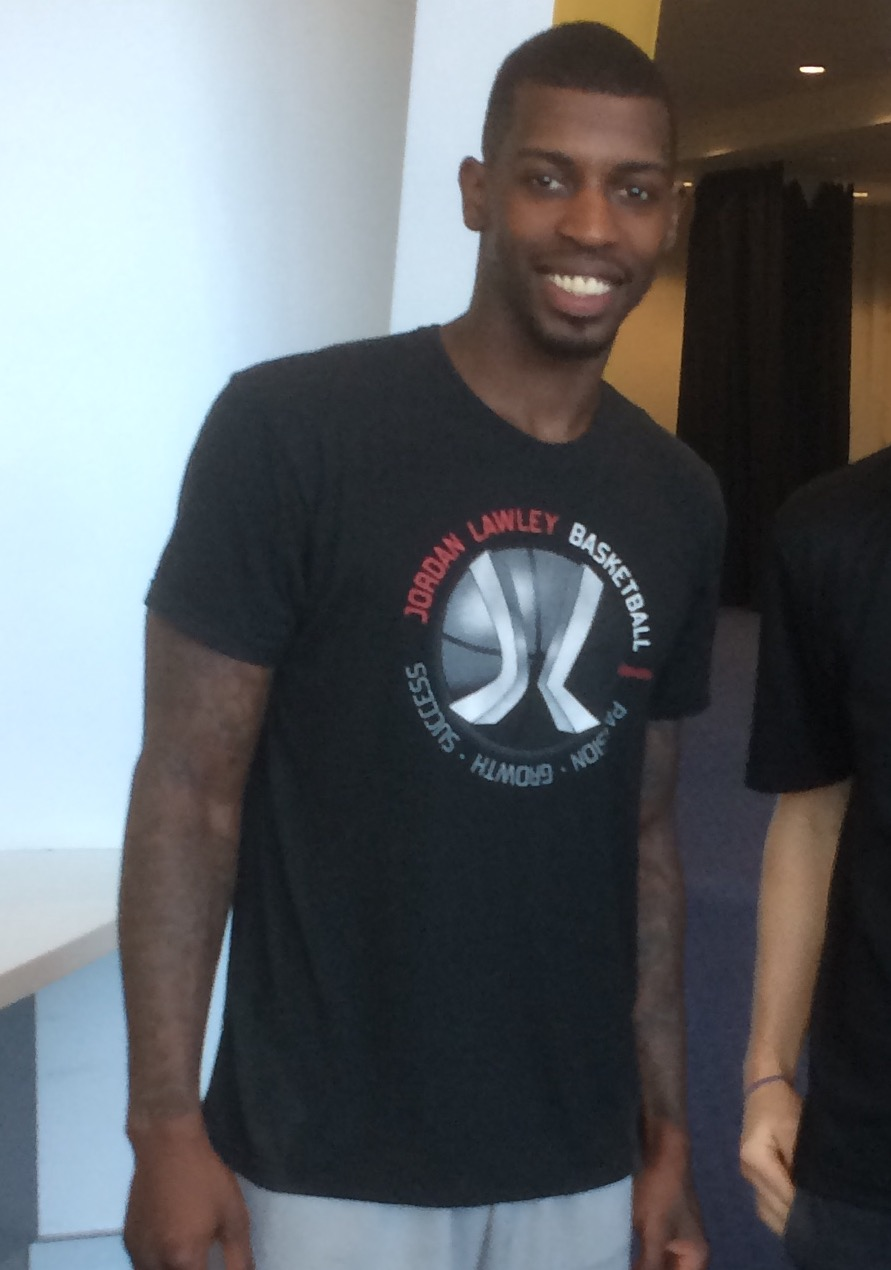 Casey Prather at Bendat Basketball Centre on 2 April 2017, prior to leaving on a red-eye flight for Germany